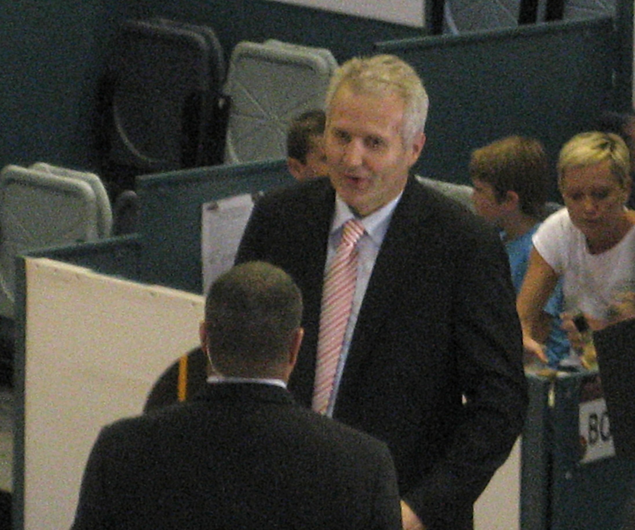 photo of Andrew Gaze at a Melbourne Tigers home game